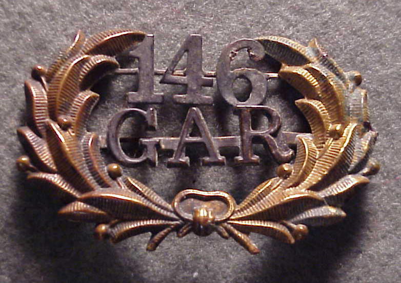 Original G.A.R. Uniform Hat Badge from Post No 146, aka RG Shaw Post, established by surviving members of the 54th Massachusetts Regiment in 1871, post deactivated in 1881 due to lack of funds. Photo by Rob Andre Stevens, badge is in his Civil War Collection.